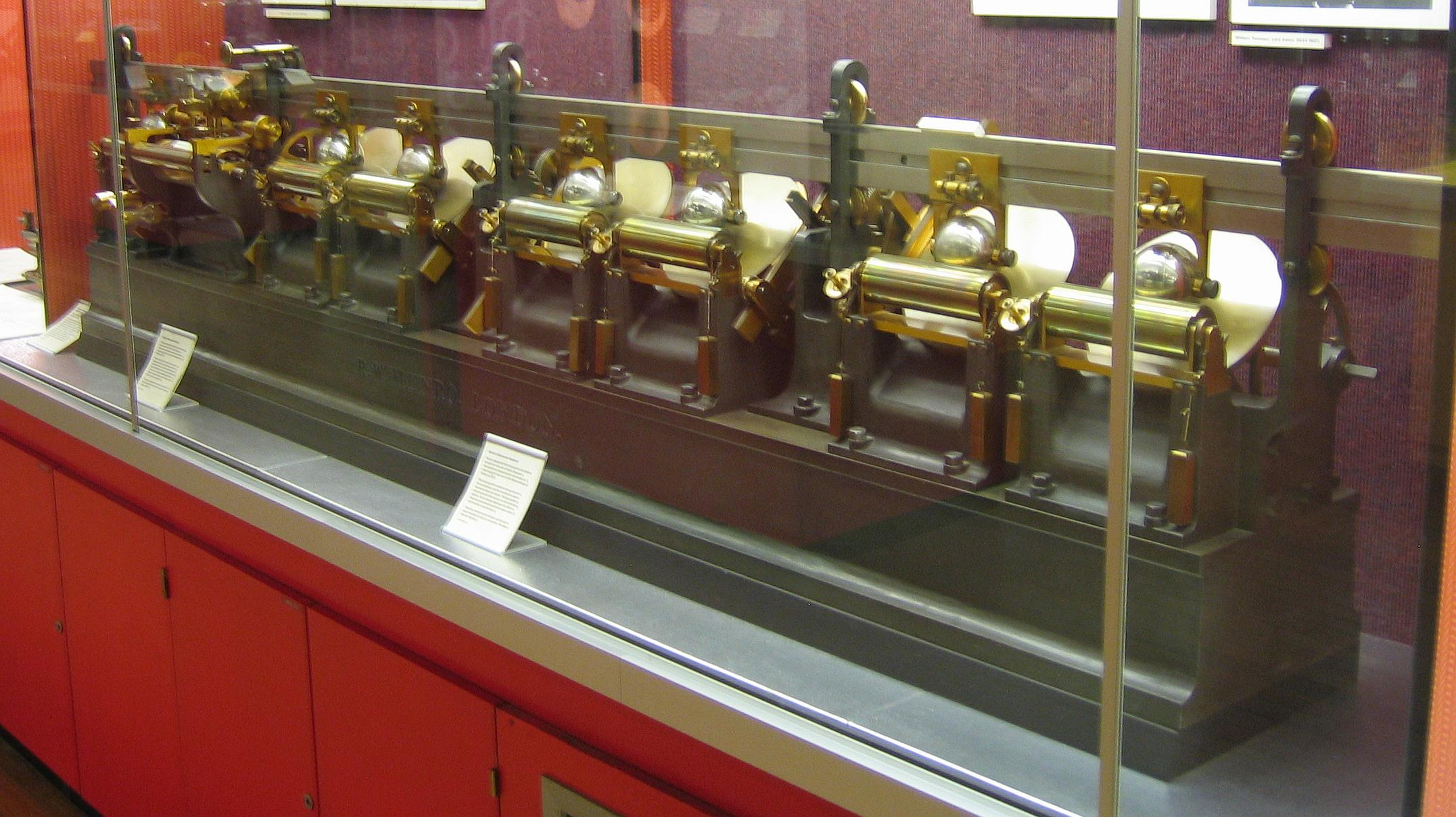 Lord Kelvin's harmonic analyser of 1878. Used for mathematical analysis of tides. Science Museum website